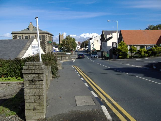 Kirk Michael, Isle of Man The main road through the Village.